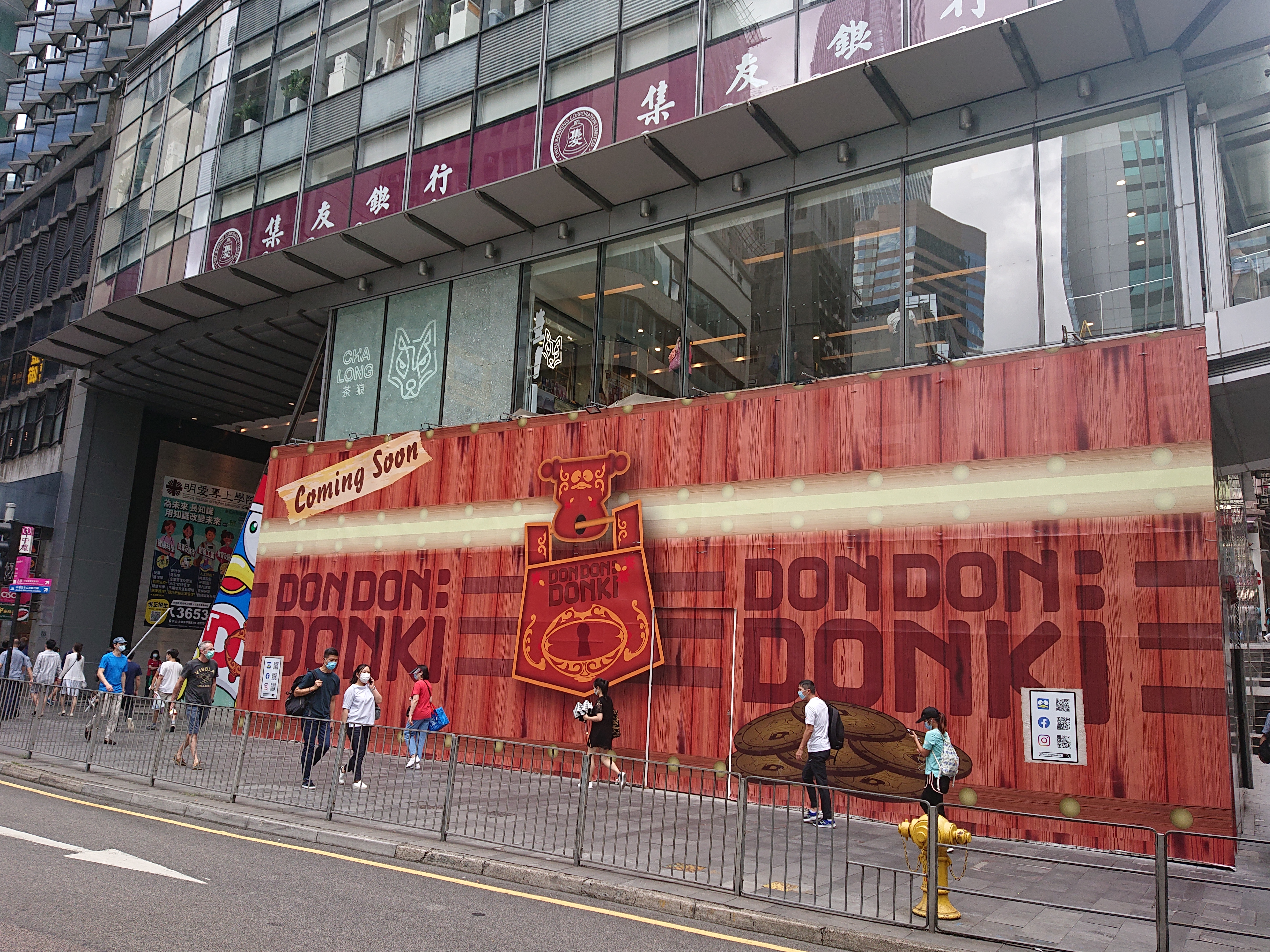 100QRC Don Don Donki in Jul 2020